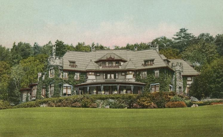 Belvoir Terrace, Lenox, MA; from a 1912 postcard printed by the Detroit Publishing Company. Designed by Rotch & Tilden, with landscaping by Frederick Law Olmsted, it was built in 1888-1890 for Morris K. Jesup.